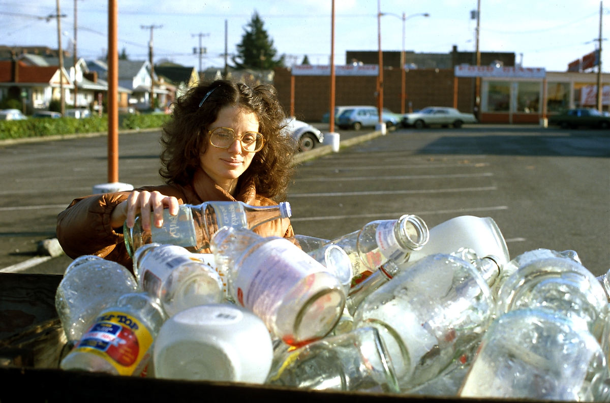 Woman recycling glass, Wallingford neighborhood, Seattle, Washington, 1990 Item 111045, Water Department Digitized Slides (Record Series 8200-14), Seattle Municipal Archives.